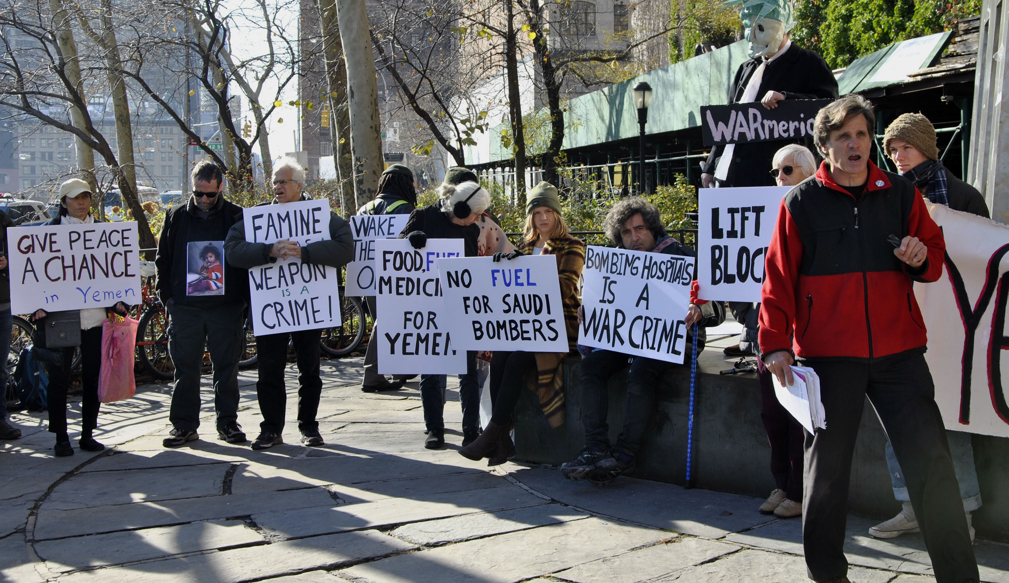 048 Rally